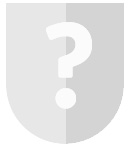 This is a filler for wherever a coat of arms is missing (in an infobox, for example).